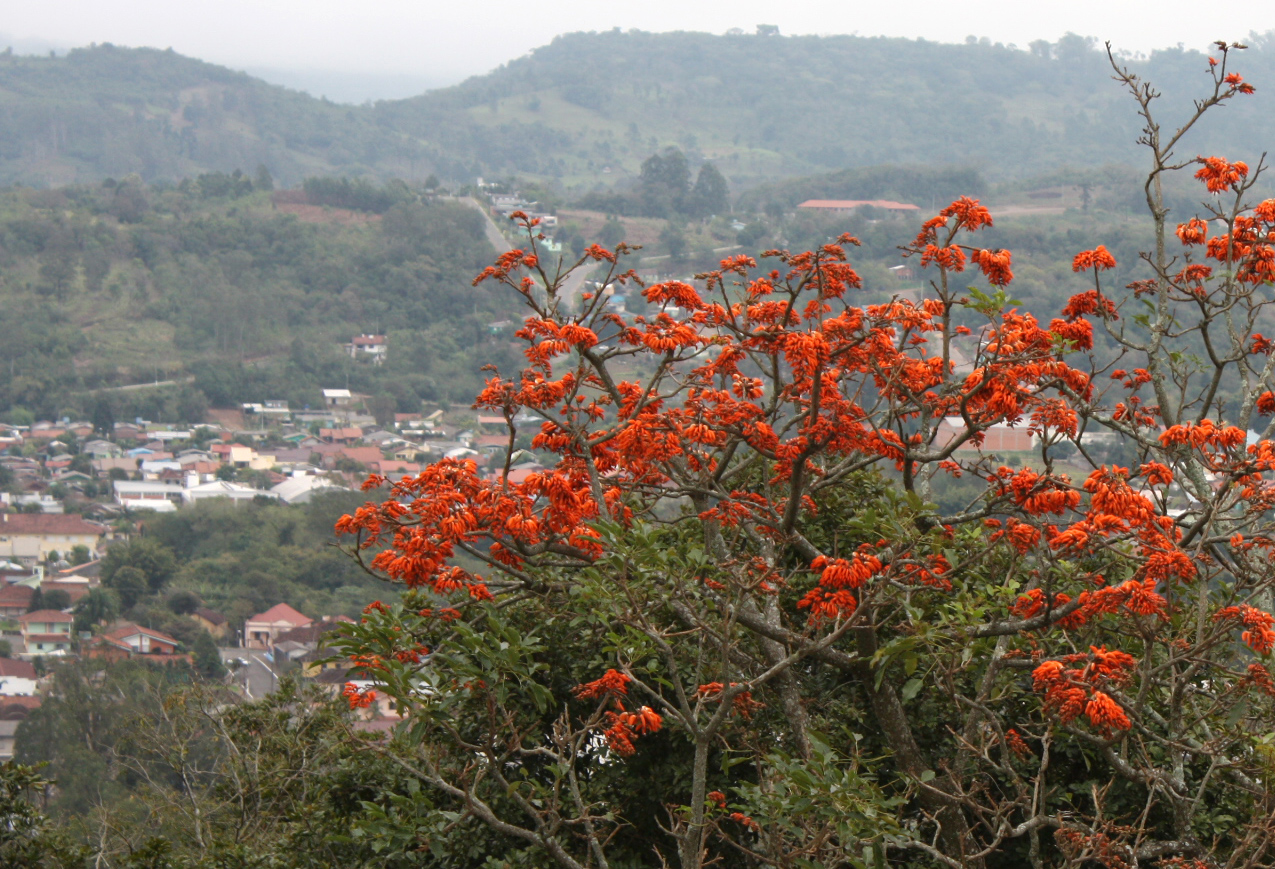 Eritrina in Igrejinha, Brazil.